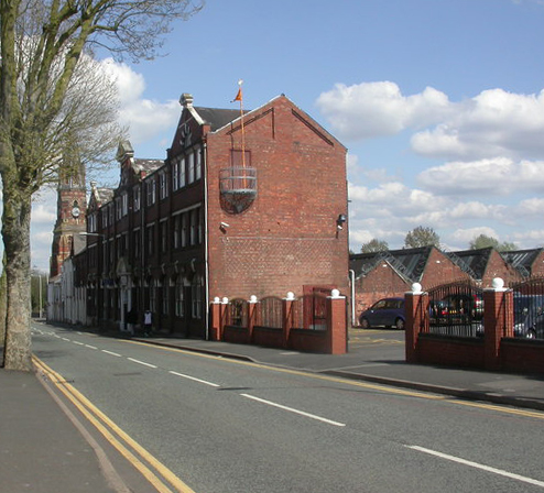 Sunbeam Motor Car Company buildings, main entrance, Upper Villiers St, Wolverhampton Automotive House, Grade II, first listed 22 March 1994, UID 435695 895-1/5/10010 Automotive House By Joseph Lavender, F.R.I.B.A., for the Sunbeam Motor Car Company, and incorporating the site of the first workshop in which a Sunbeam motor car was produced. National Grid Reference: SO9123297104 Historic England